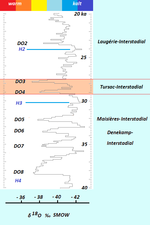 Diagram showing the position of the Tursac interstadial (marked in red) within the time range 20 to 40 ky BP. The δ18O values from GISP-2 follow the diagram of Wolfgang Weißmüller. The positions of the Dansgaard-Oeshger events DO2 to DO8 and the Heinrich events H2 to H4 are also indicated.